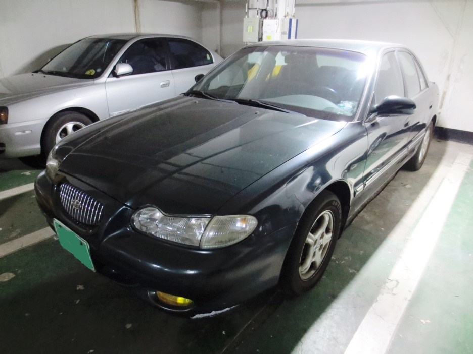 Hyundai Sonata (Y3)